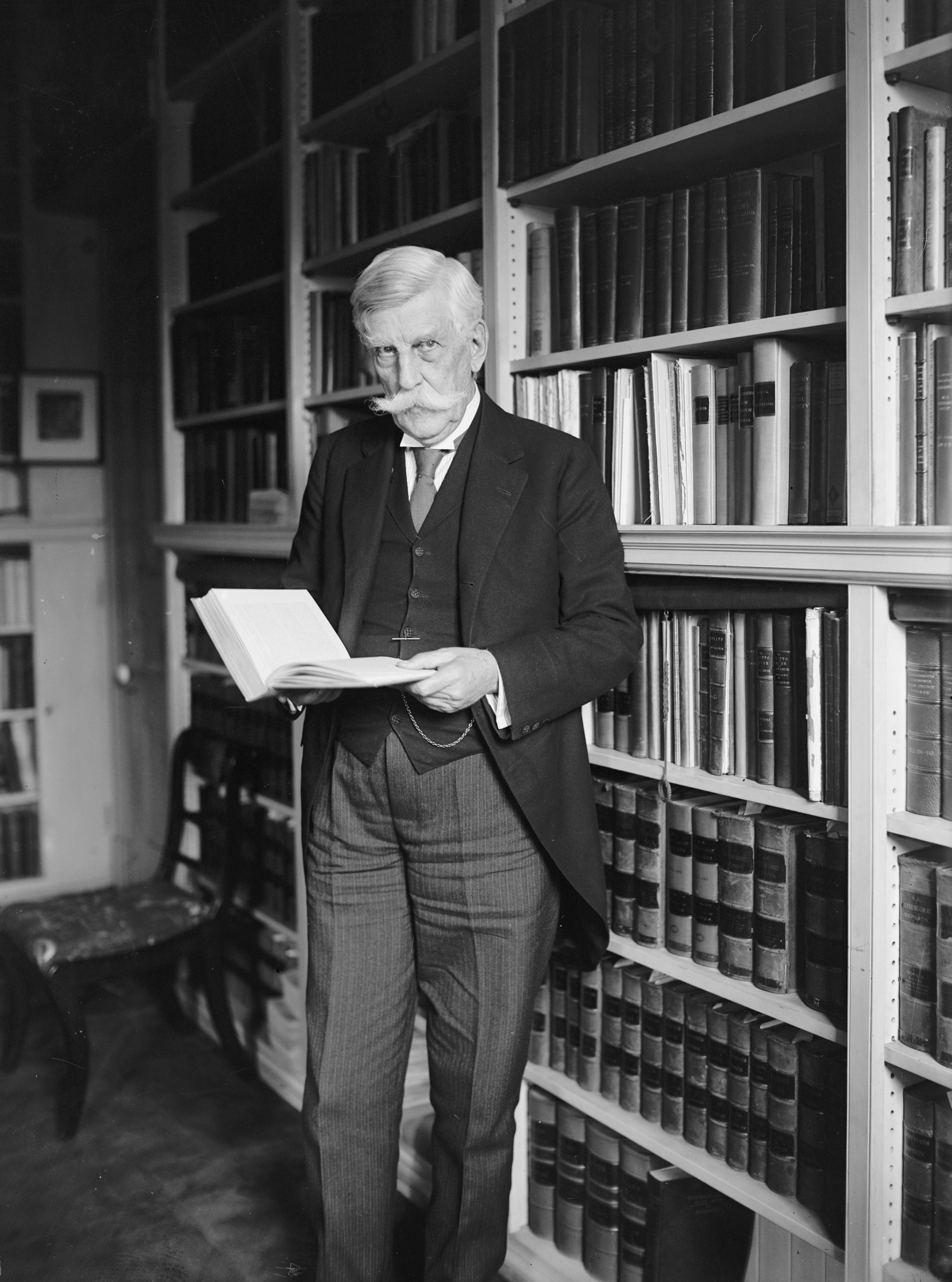 Justice Oliver Wendell Holmes